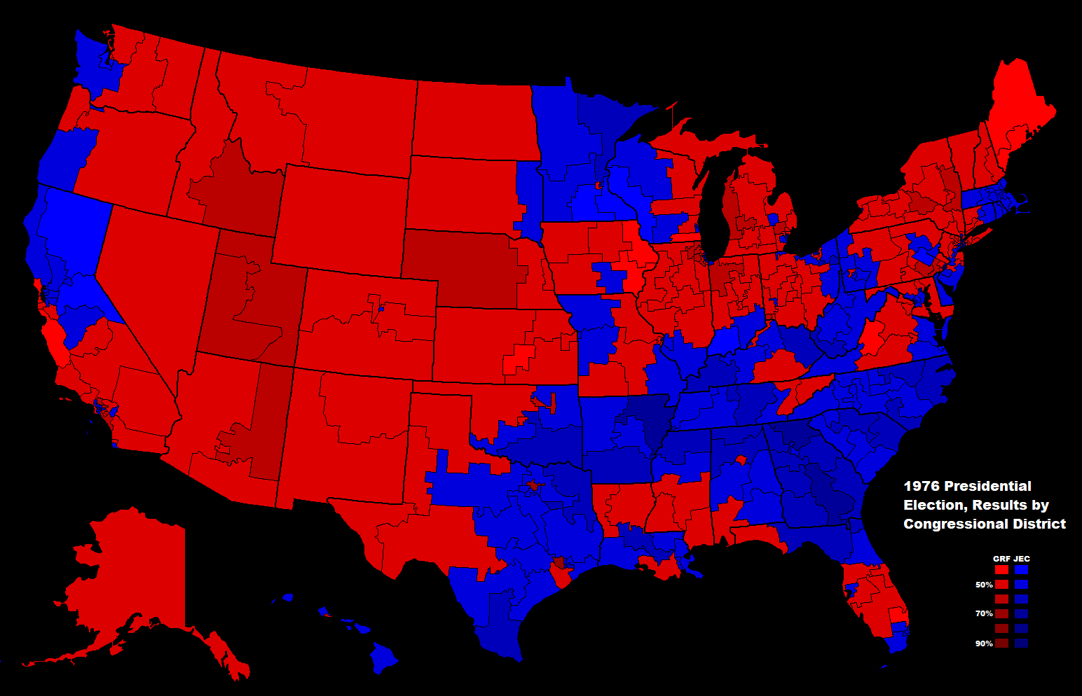 This map shows the results of the 1976 Presidential Election by Congressional District.